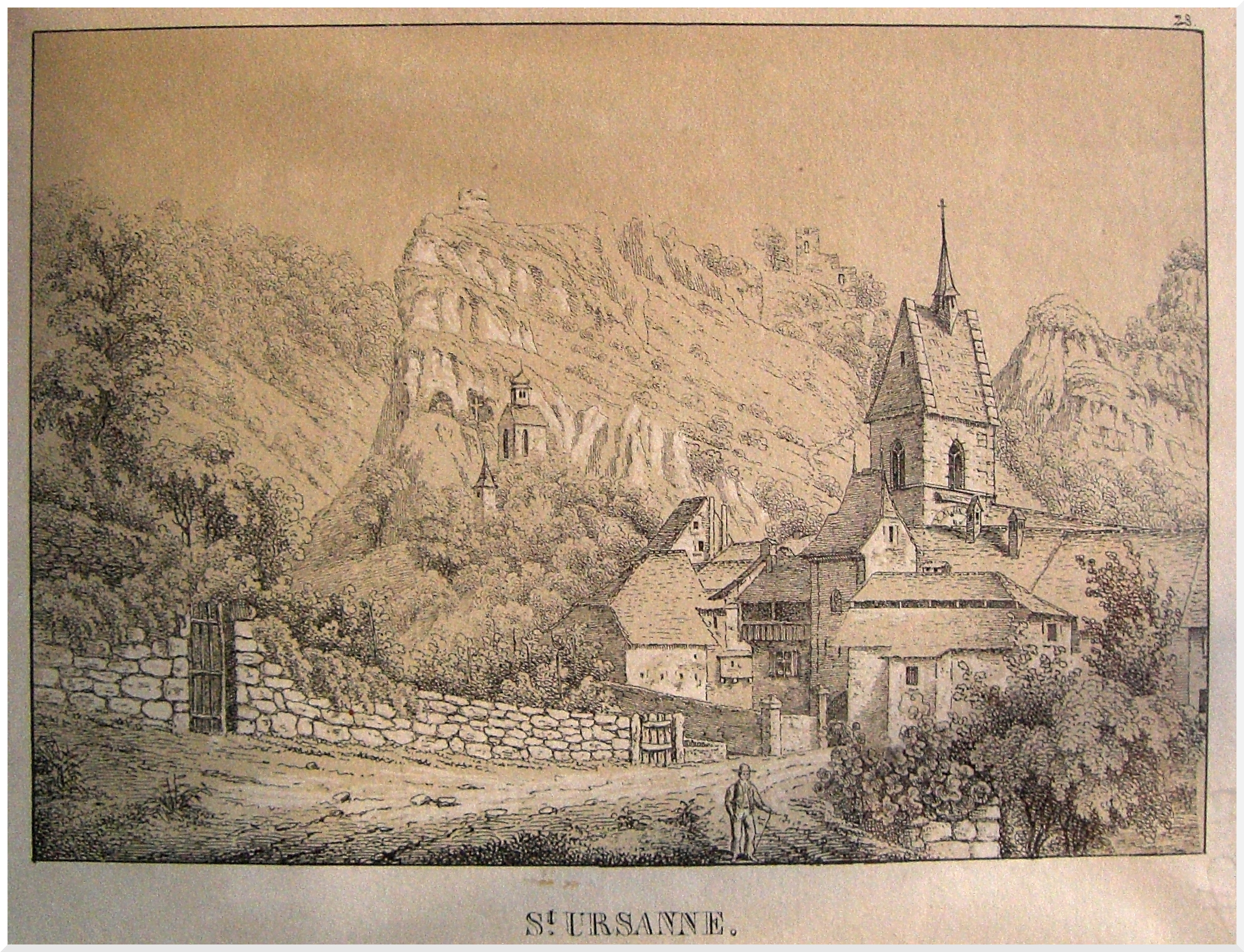 view of medieval city of St-Ursanne